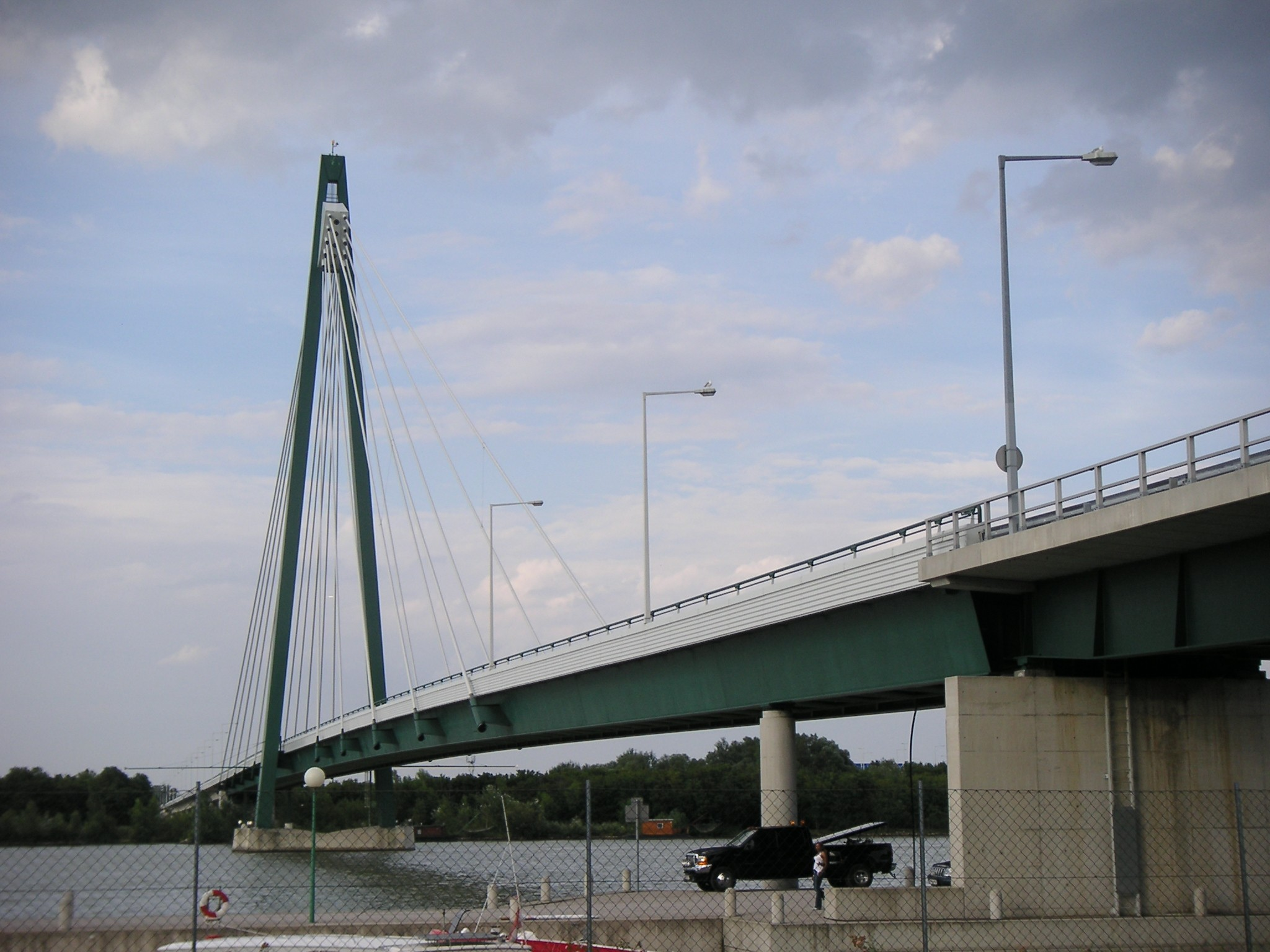 Donaustadtbrücke in Vienna, Austria